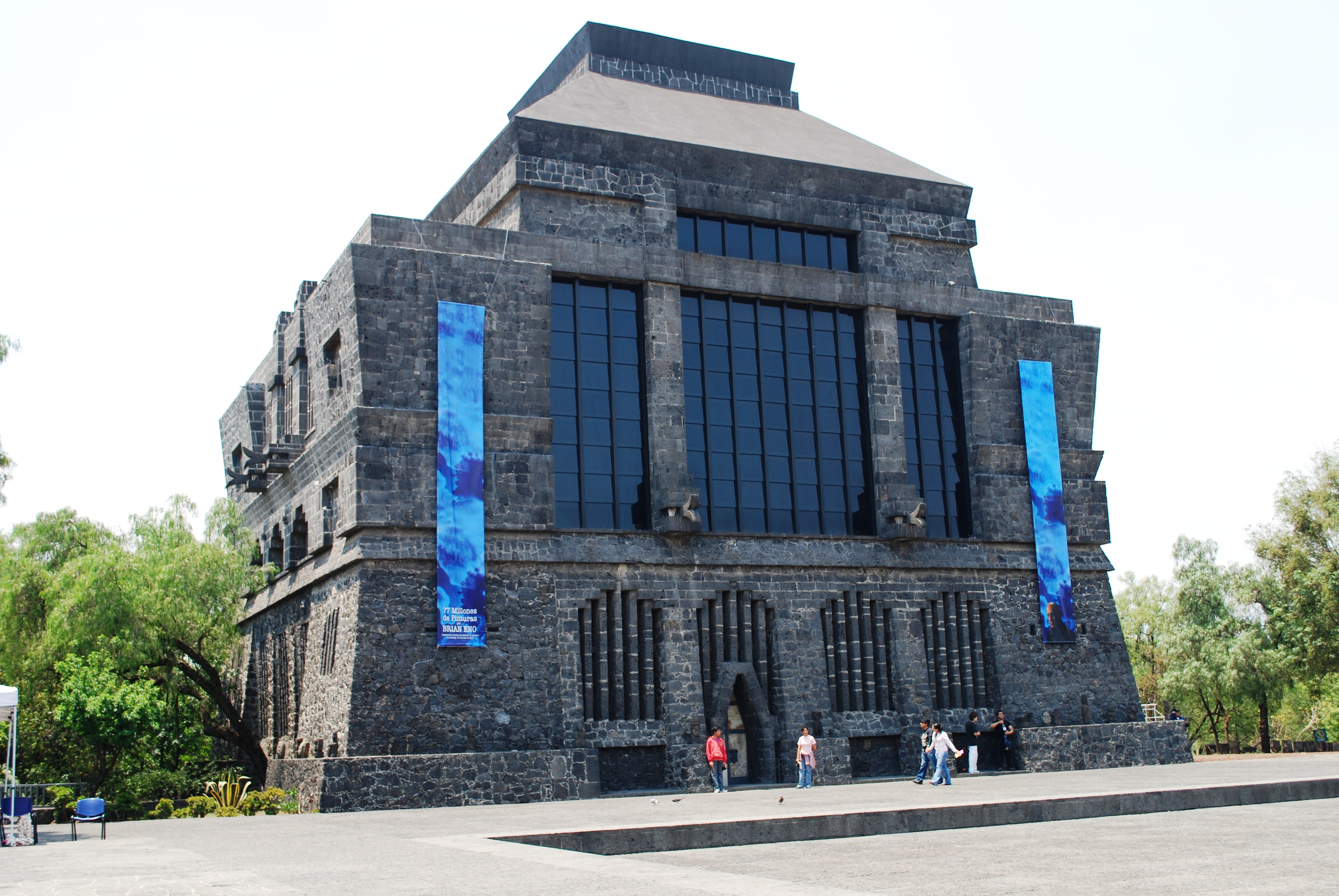 Main building of the Anahucalli Museum in Coyoacan, Mexico City